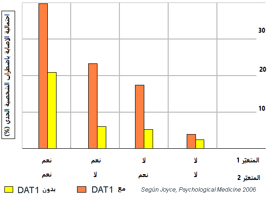 A graphics showing the data obtained by Joyce and colleages in 2006, revealing association between Child abuse + neglect (variable 1), borderline temperament (variable 2)